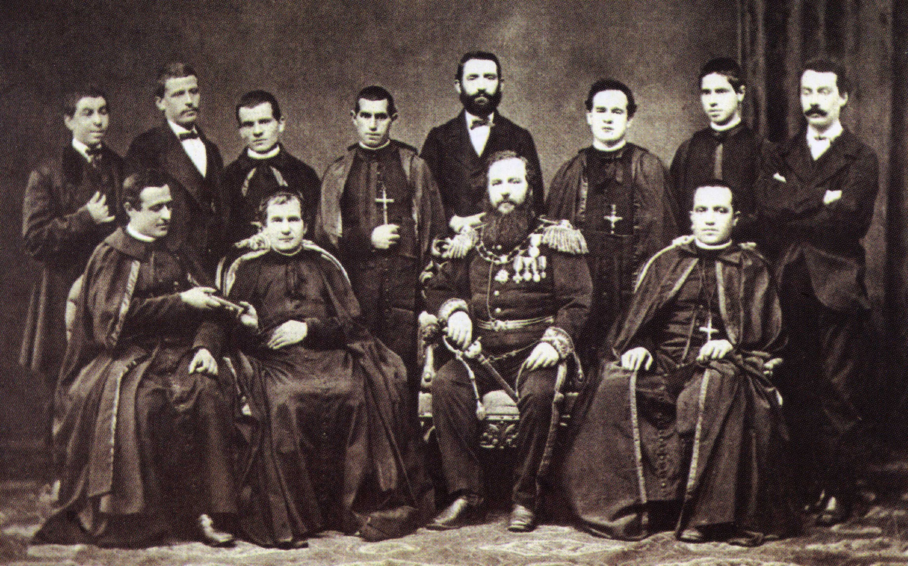 Sitting from left to right: Giovanni Cagliero (1838-1926), Giovanni Bosco (1815-1888), and Giovanni Battista Gazzolo (1825-1895), argentine consul in Savona.